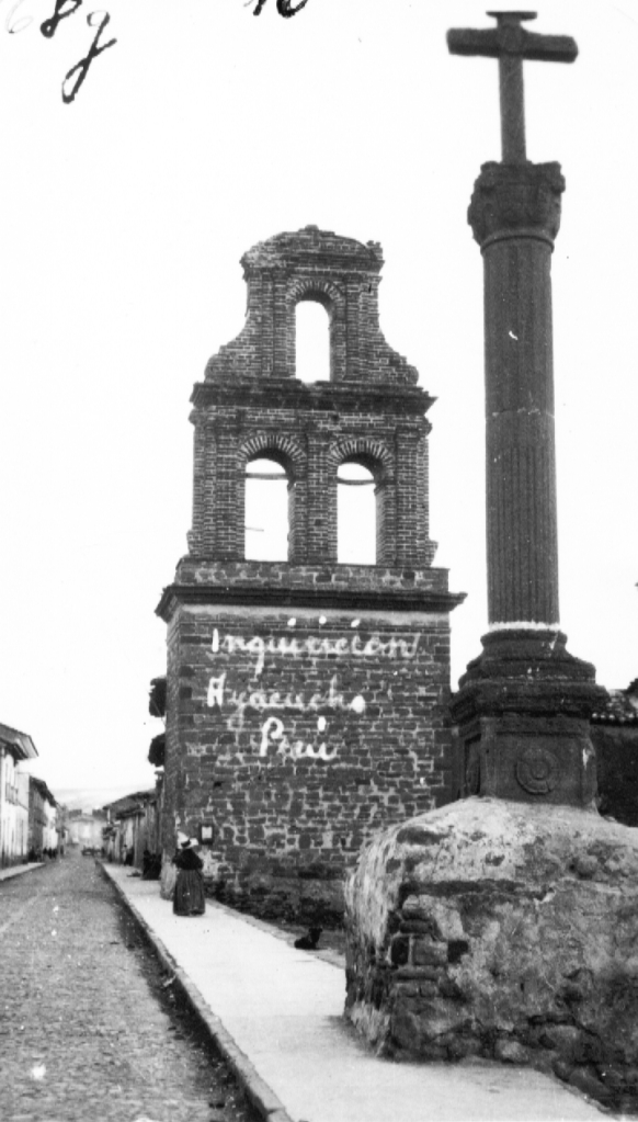 StoDomingo1924